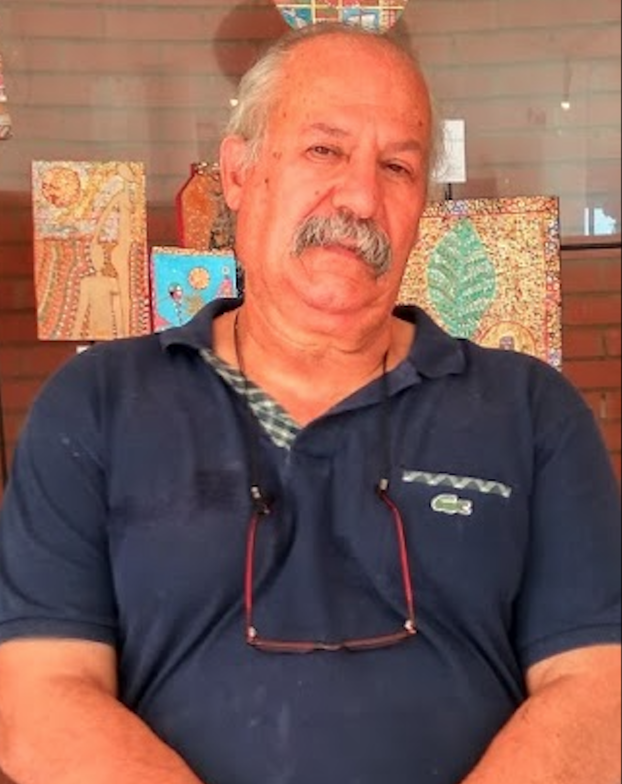 Asteris Gkekas during his "Palimpsests" exhibition at Archaeological Park of Dion, Greece, 21 August 2019